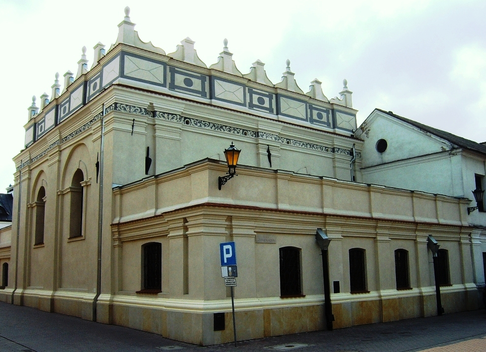 The Synagogue in Zamość (after repair; 2011 - Center "Synagogue")